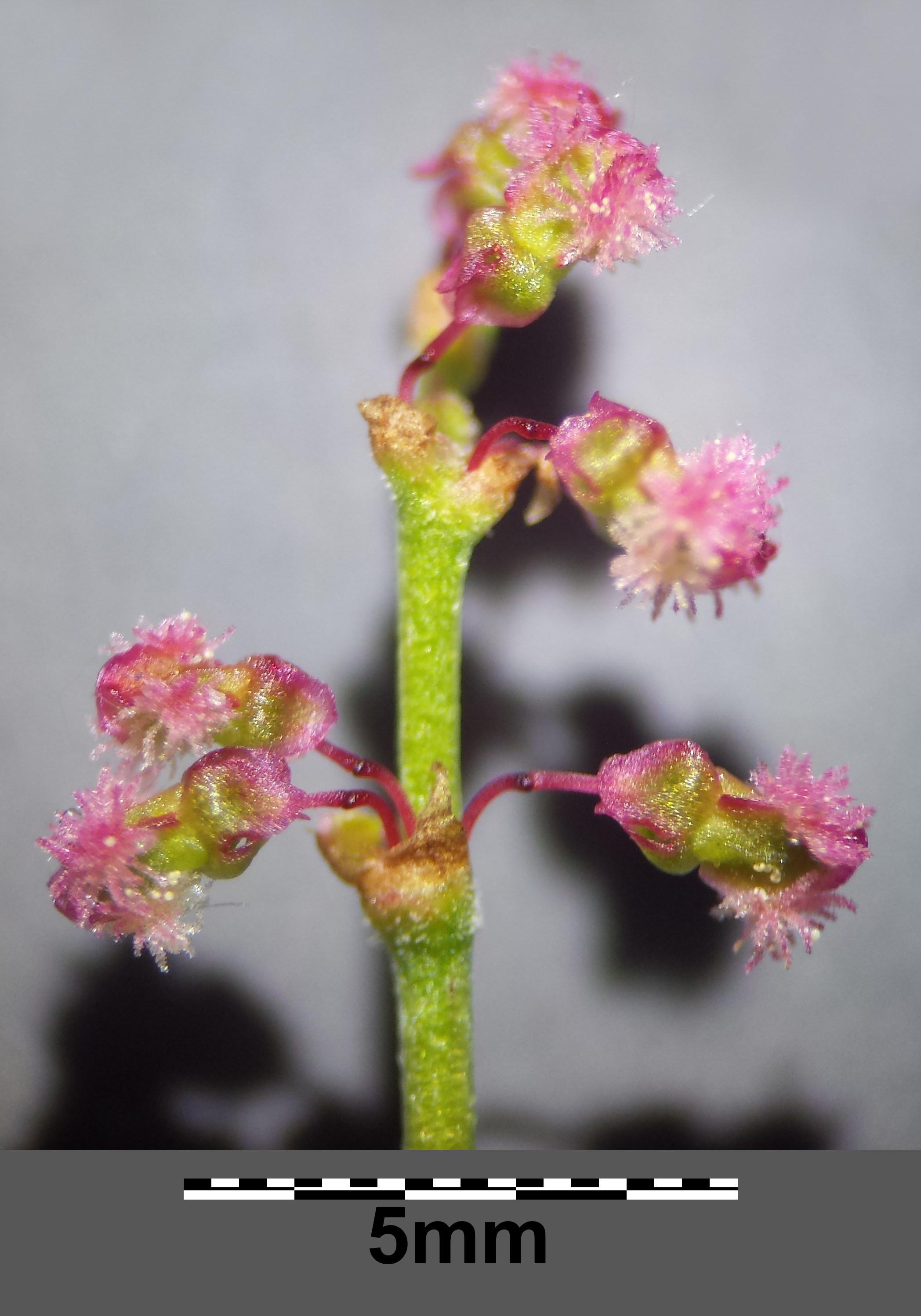 Inflorescence Taxonym: Rumex thyrsiflorus ss Fischer et al. EfÖLS 2008 ISBN 978-3-85474-187-9 Location: Floridsdorf rail station, Vienna-Floridsdorf - ca. 160 m a.s.l. Habitat: ruderal area